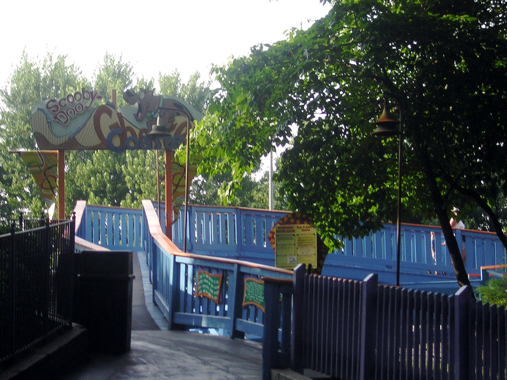 Scooby-Doo's Ghoster Coaster roller coaster at Paramount's Kings Dominion.